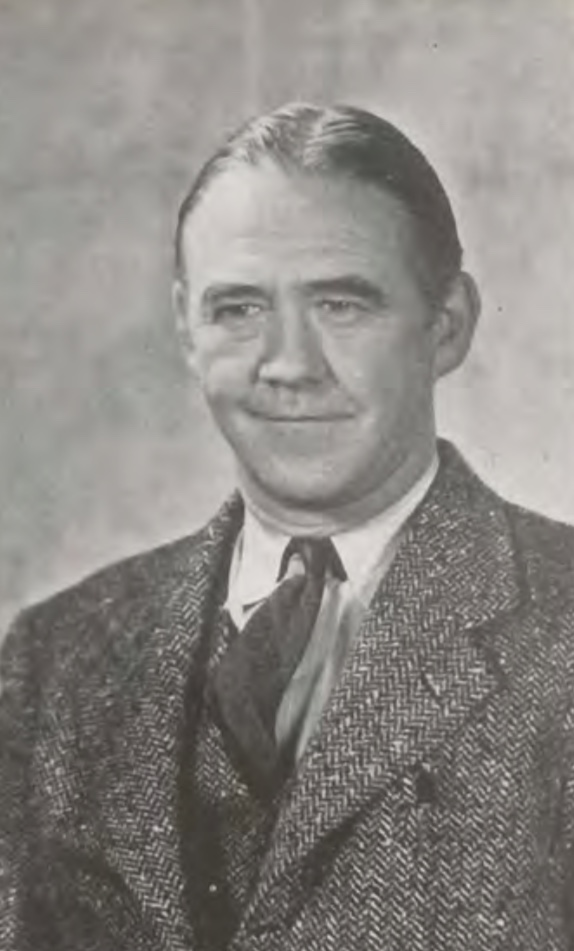 University of Toledo baseball coach David C. Connelly from the 1942 “Blockhouse” yearbook.